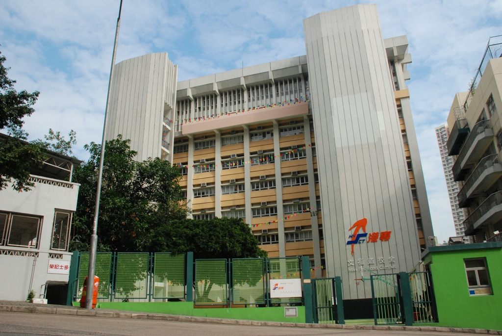 中文（香港）: Campus view from Man Fuk Road, Homantin.